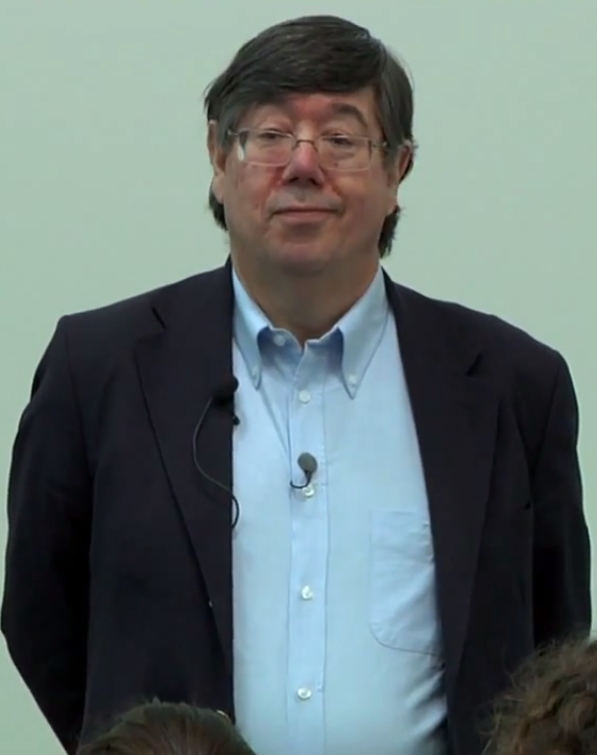 Carlos Fiolhais (b. 1956), a Portuguese physicist, college professor and essayist.